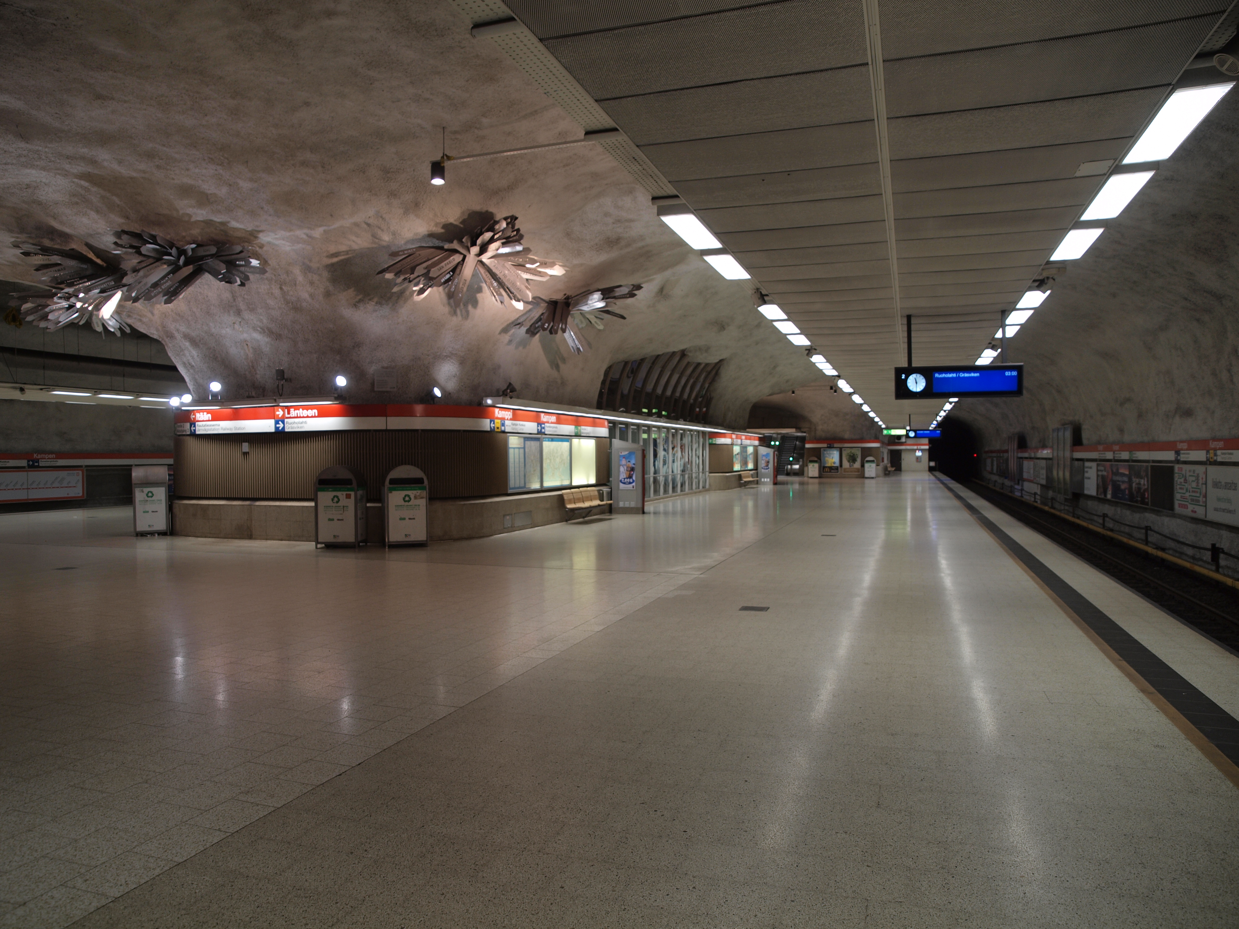 The Kamppi metro station in Kamppi, Helsinki, Uusimaa, Finland, in the middle of the night, completely empty. I was pretty much literally the only person present. This is the first time I have seen a metro station in Helsinki completely empty.